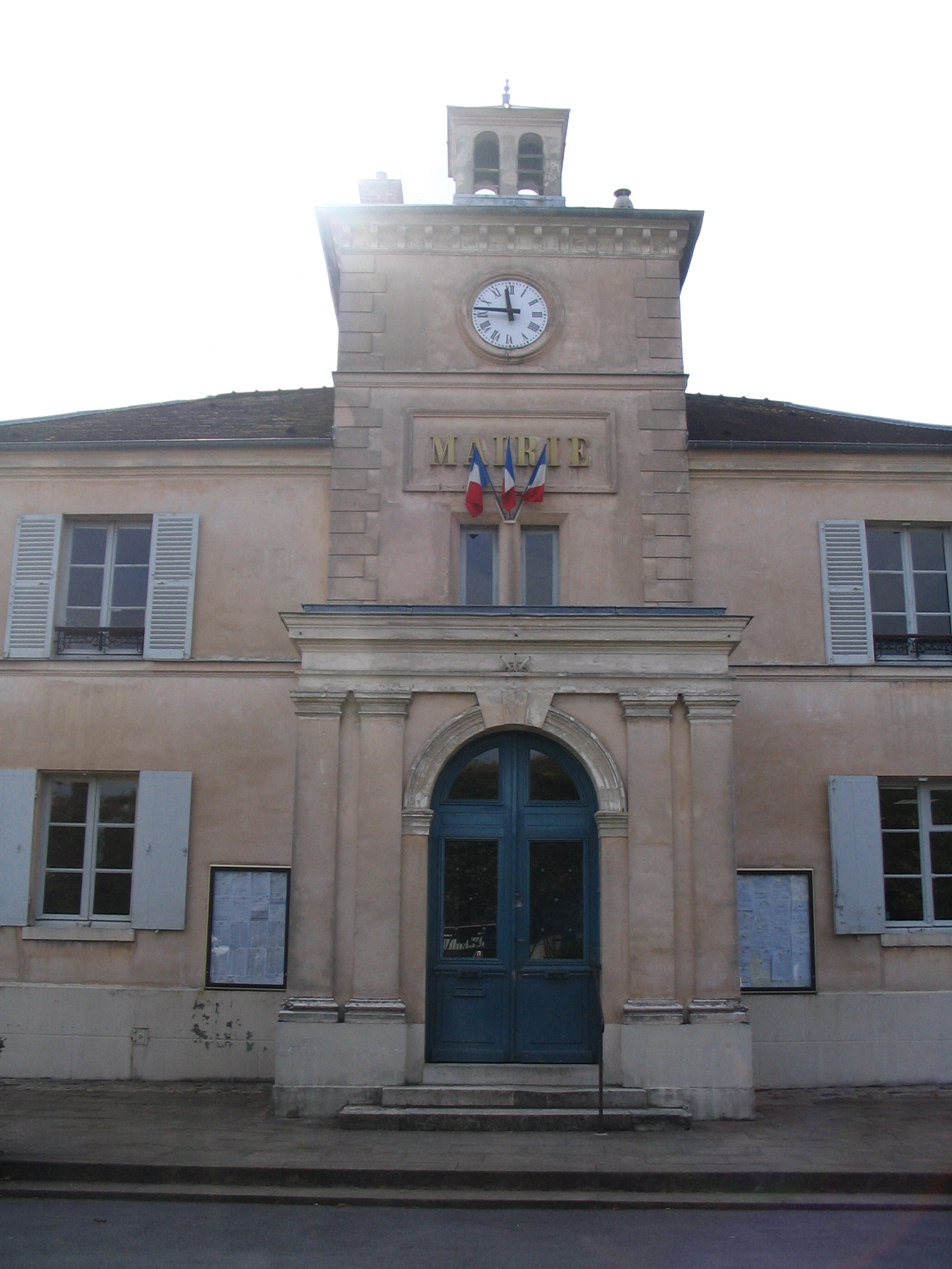 The town hall of Marnes-la-Coquette, Hauts-de-Seine, France.